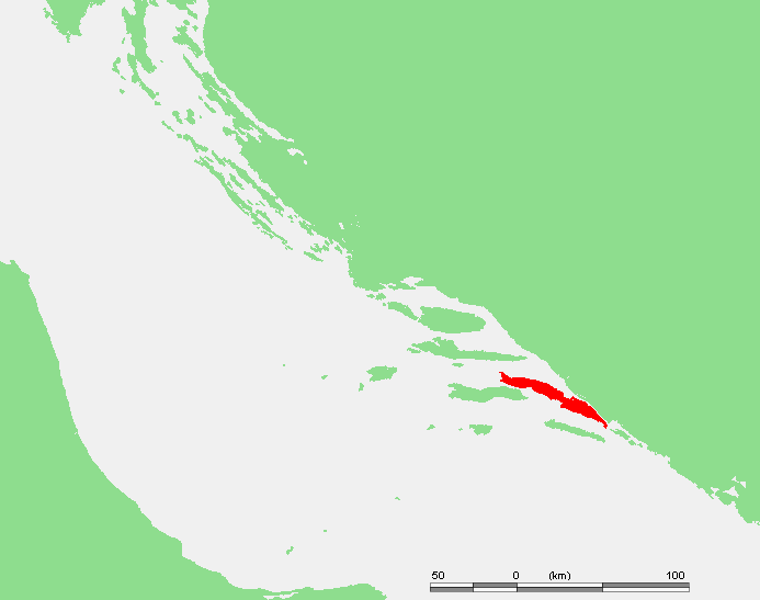 Island of Croatia - Croatia - Peljesac.PNG